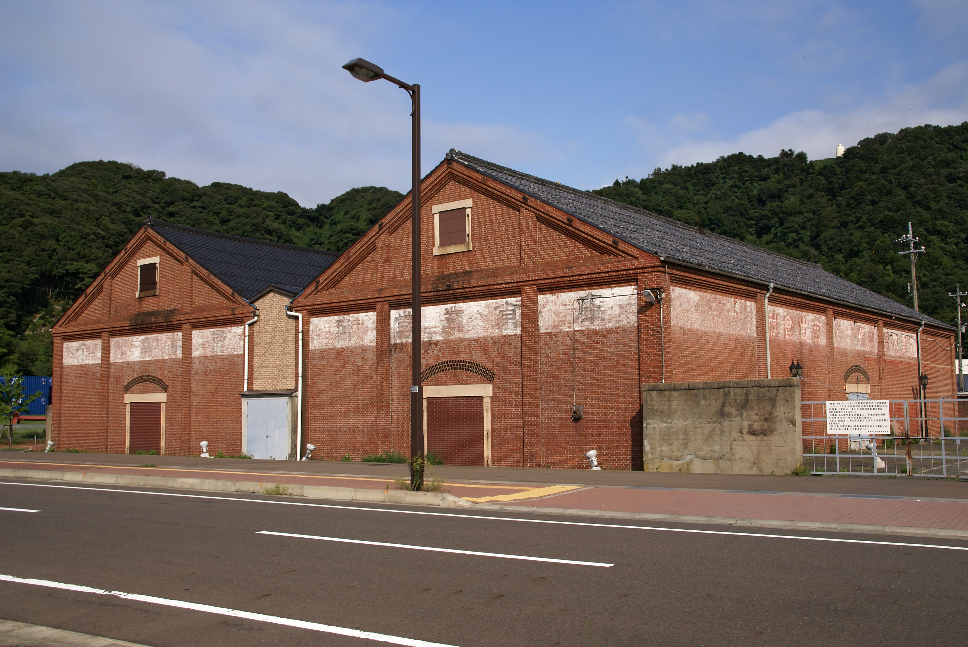 Tsuruga Red Brick Warehouses in Tsuruga, Fukui prefecture, Japan